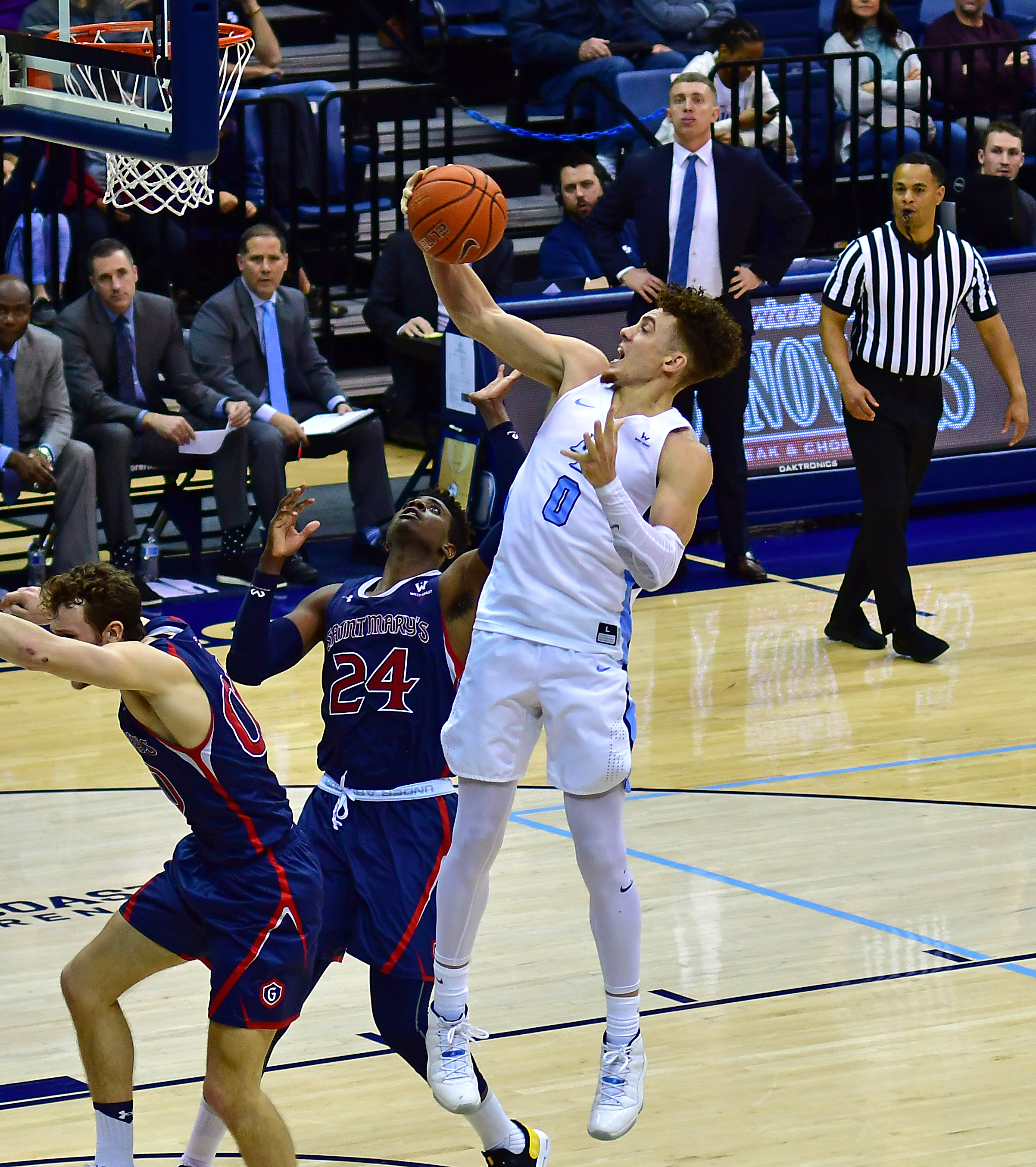 DSC_3719 ISAIAH PINEIRO